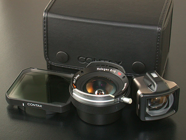 Hologon 8/16 w/finder,filter,case